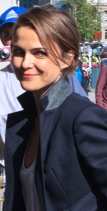 Keri Russell at the 2009 Toronto International Film Festival.